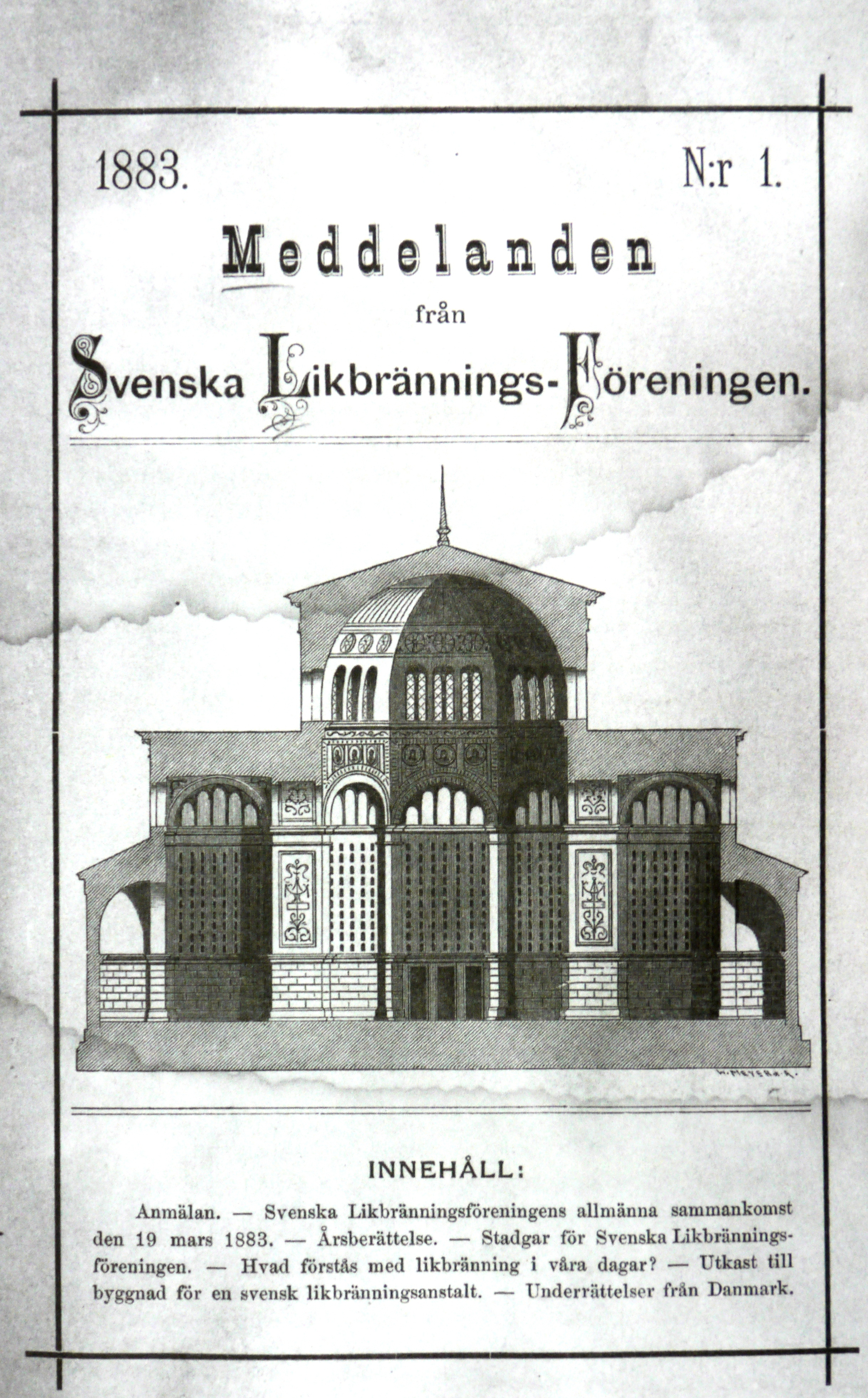 Source: Brochure from 1883 at Gothenburg City Museum.